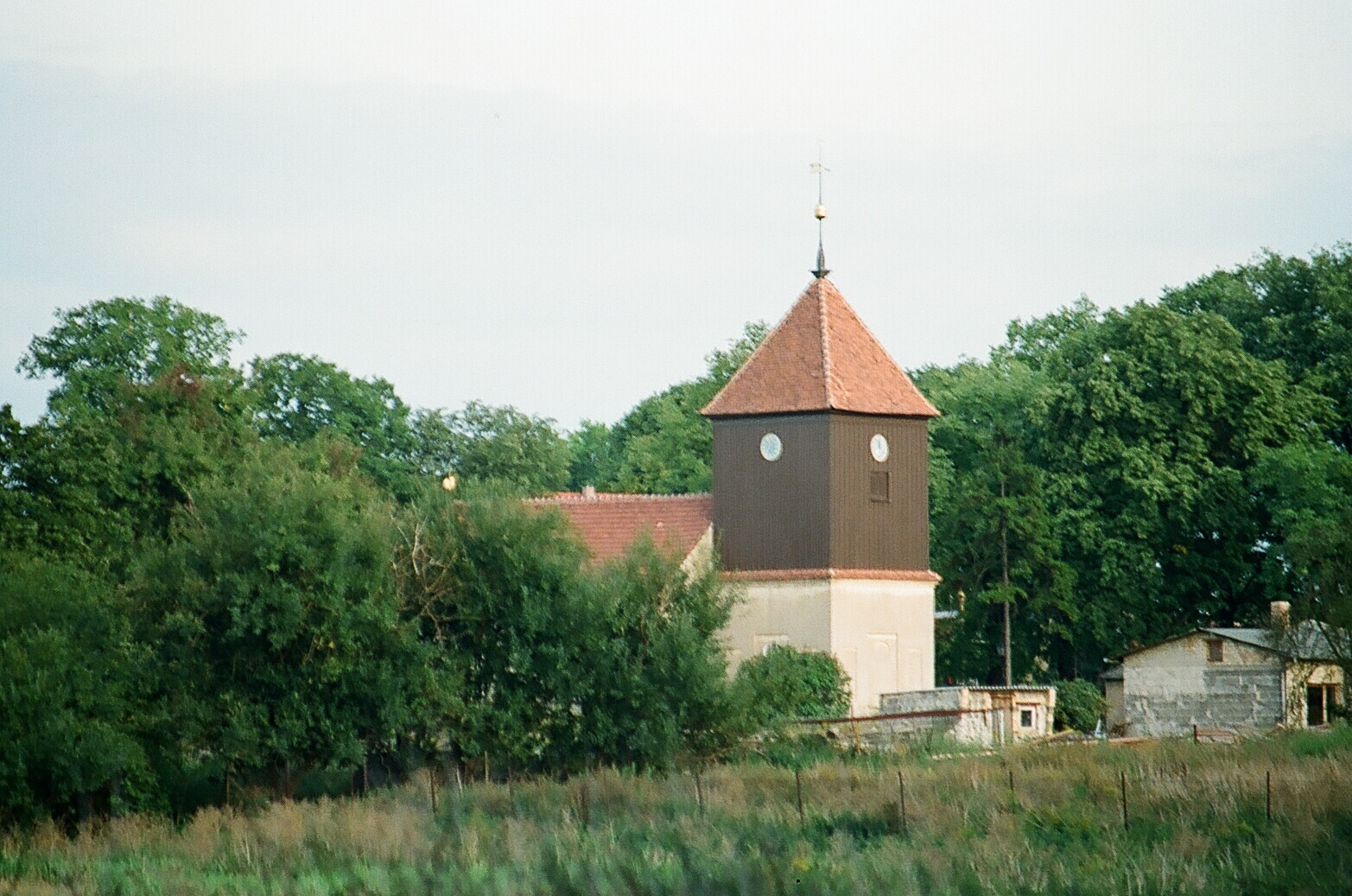 Village church in 1992.